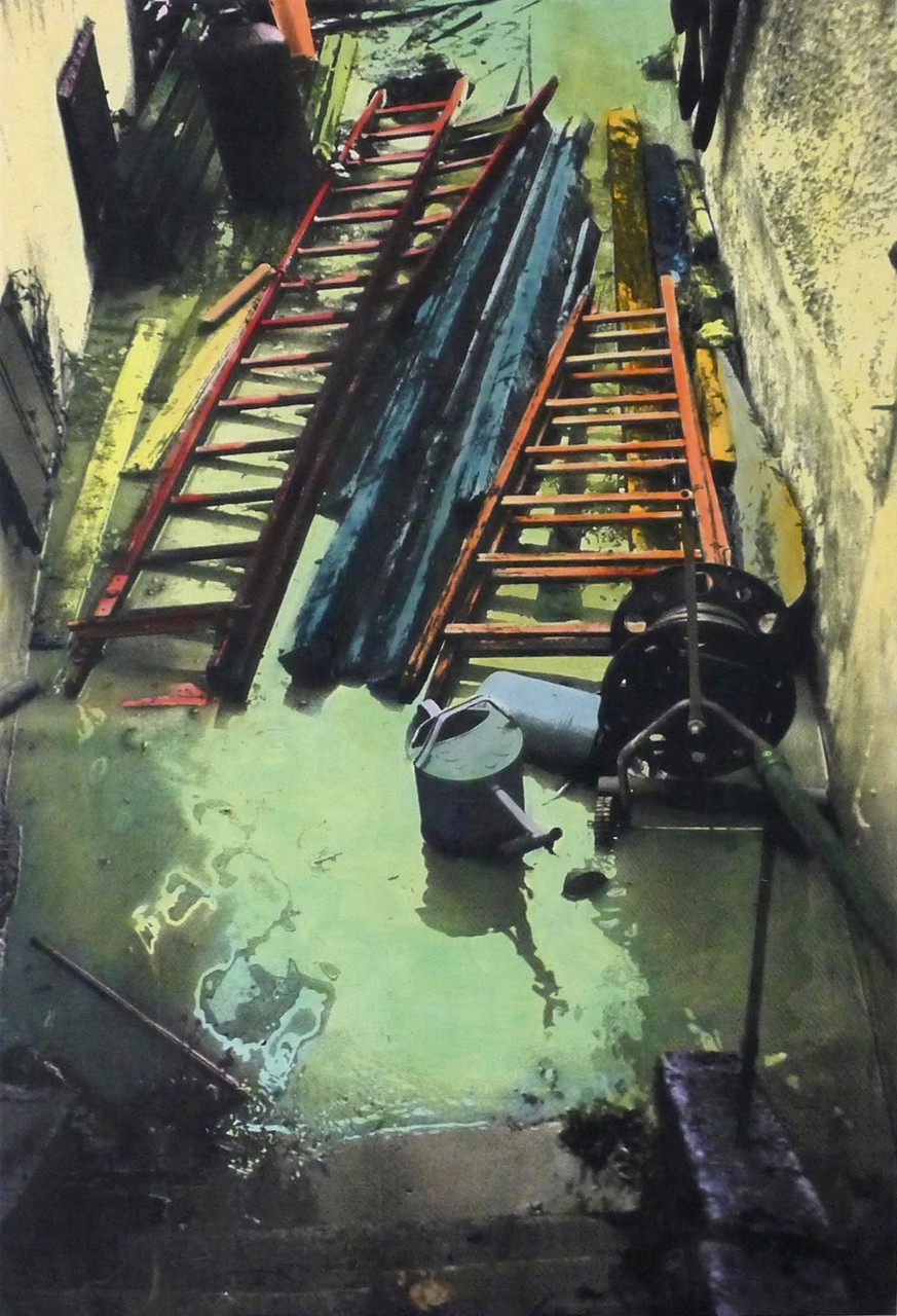 Screen Printing "Leitern" (Ladders), 2007 (Linz-Urfahr, Danube flood 2002)